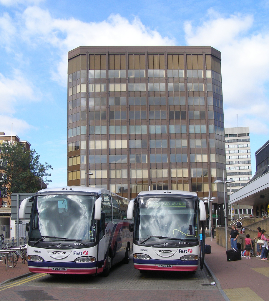 The RailAir bus terminal at Reading Station with Thames Tower in the background. This is where you catch the bus to Heathrow Airport. The wing mirrors on these buses remind me of the antennae of wasps. Taken on 2006-08-06.